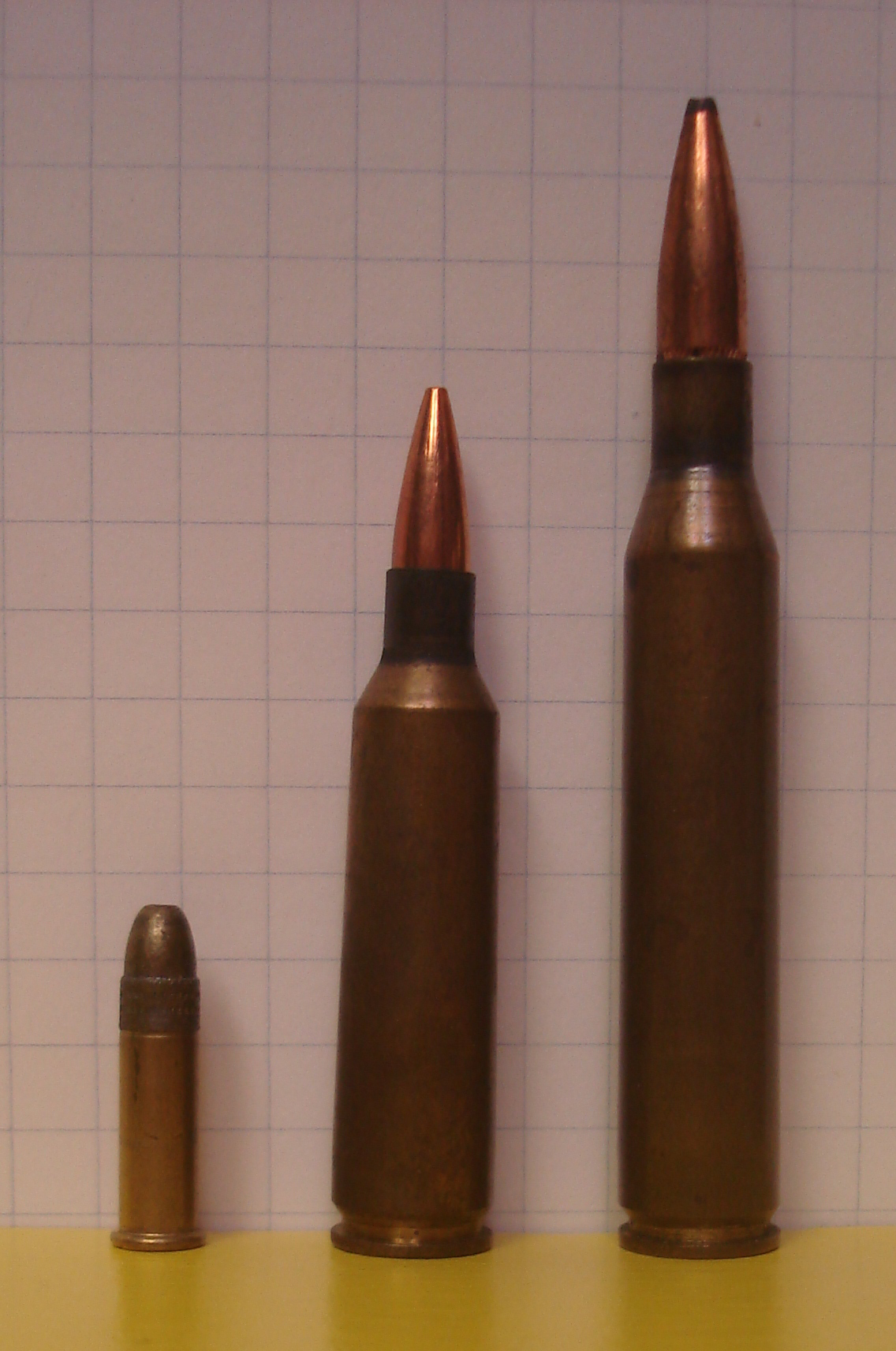 Varmint rifle cartridges with 0.25-inch grid from left to right: .22 long rifle with 37-grain hollow-point bullet, .22/250 with 53-grain hollow-point bullet, and .25-06 with 120-grain hollow-point bullet.